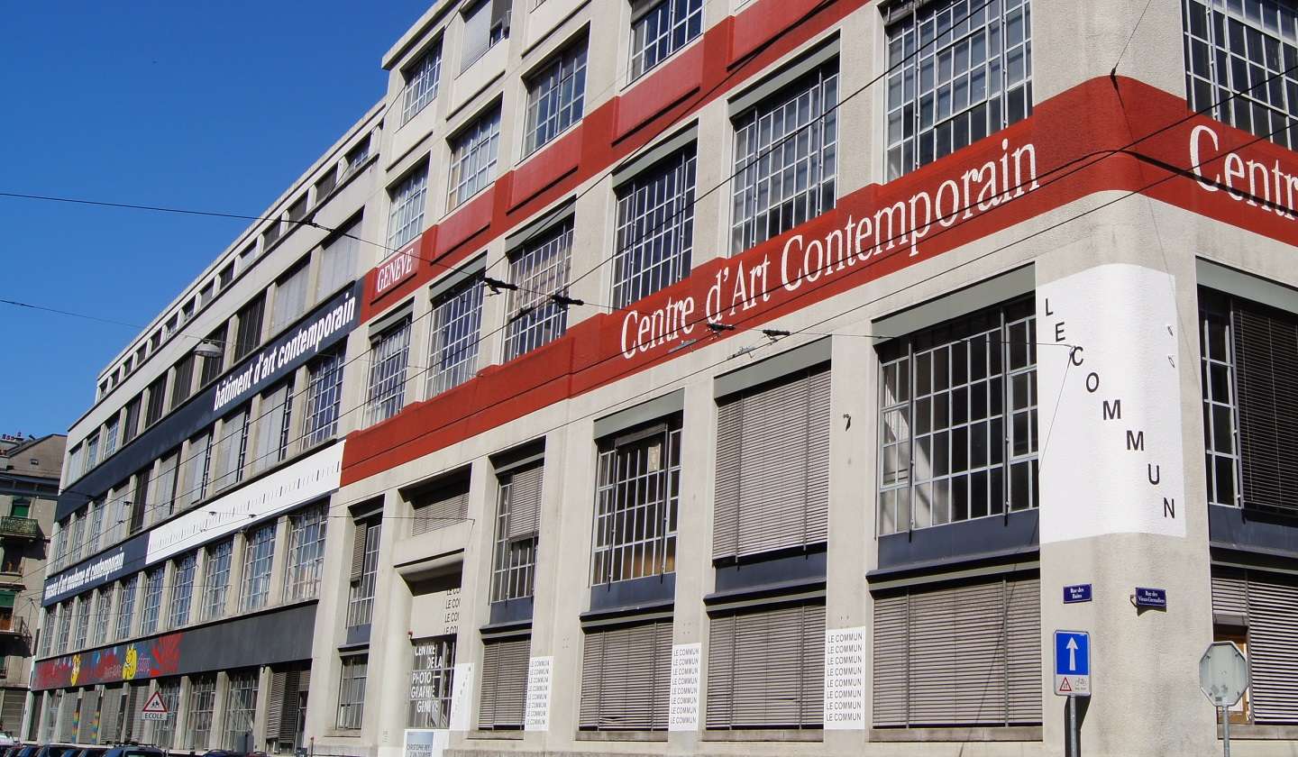 Bâtiment d’art contemporain (BAC), Geneva - (Bâtiment C) with CAC, CPG & Le Commun